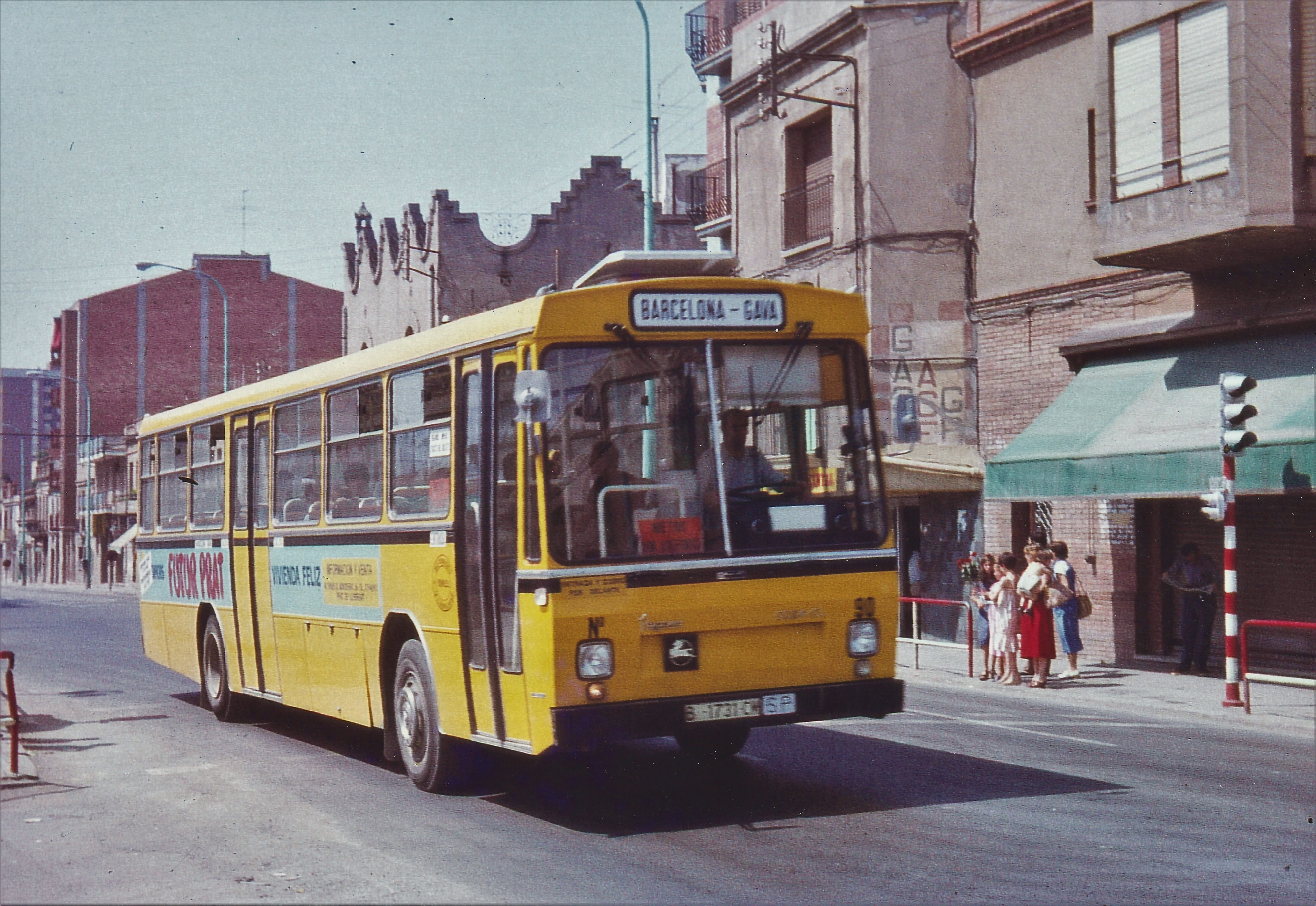 The Pegaso 5024-CLN bus with Unicar U-75 bodywork, number 90 of Mohn S.L., in Viladecans.